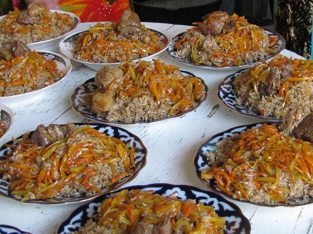 Samarkandian palov (pilaf, plov)